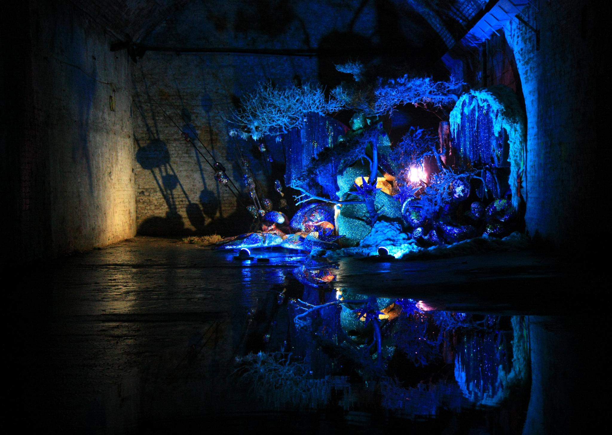 The Majesty - a recycled Chelsea Flower Show garden, transported south of the river and trapped in a dark dank dungeon off the Leake St graffiti tunnel.